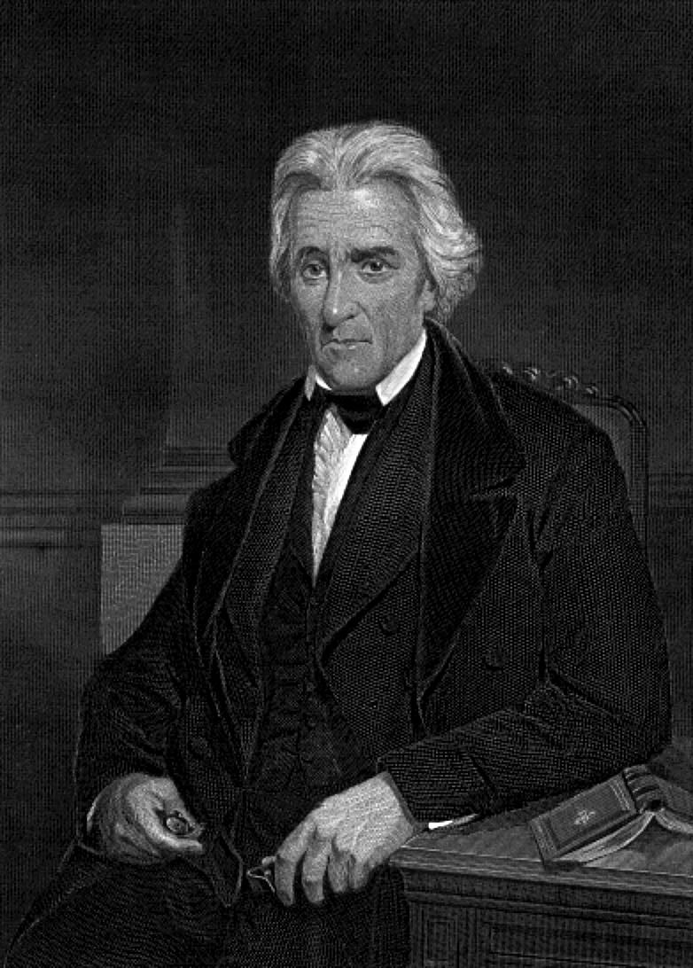 Portrait d'Andrew Jackson